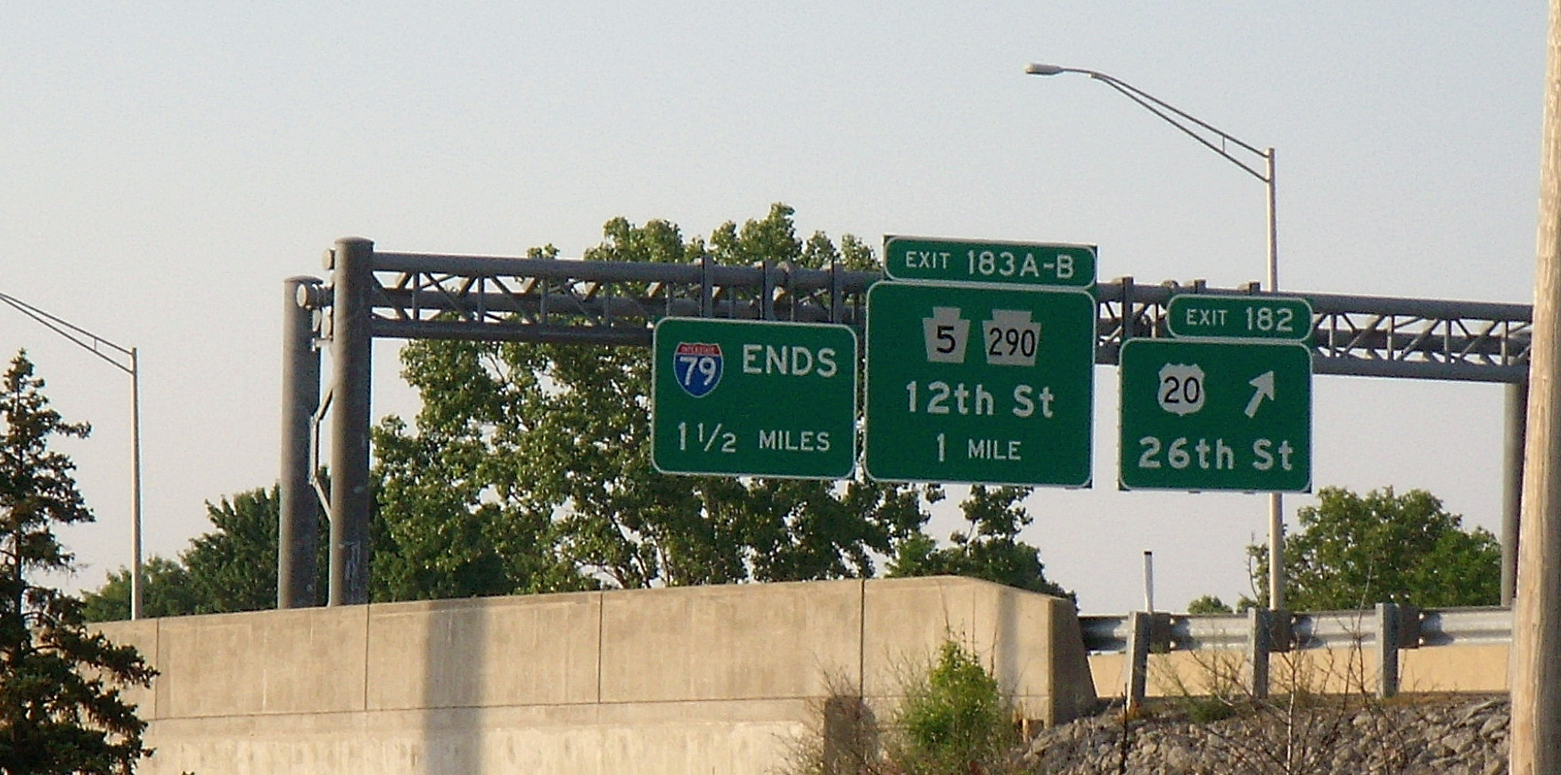 The northbound Interstate 79 Exit 182, Exit 183, and I-79's northern terminus in Erie, Pennsylvania.